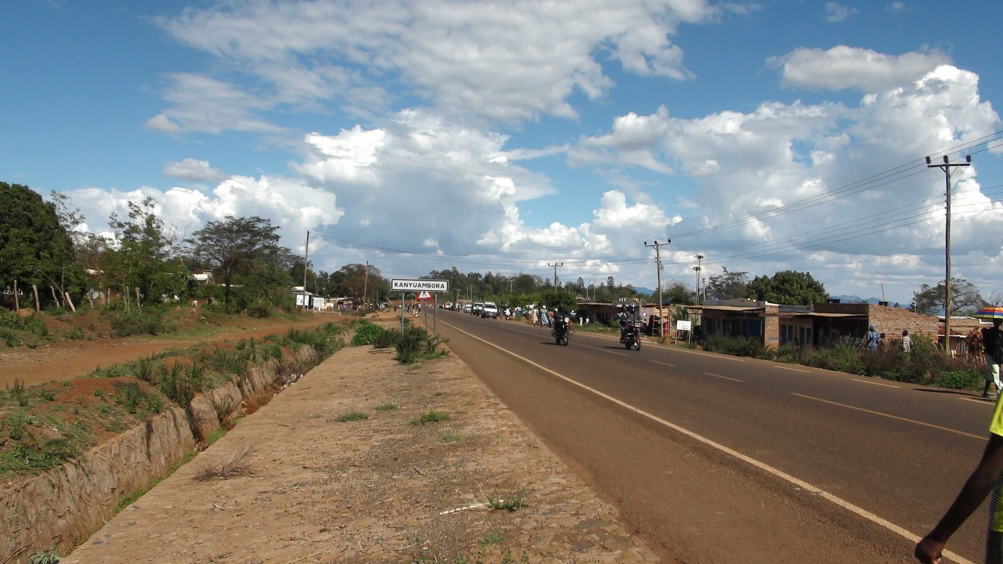 This is a photo of Kanyuambora shopping Center in Embu County, Kenya. The photo was taken by BMJ Muriithi in 2017.